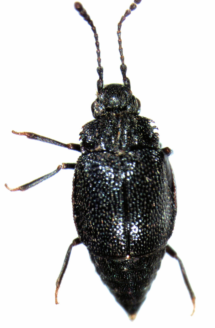 adult Austrorhysini n.g. n.sp.